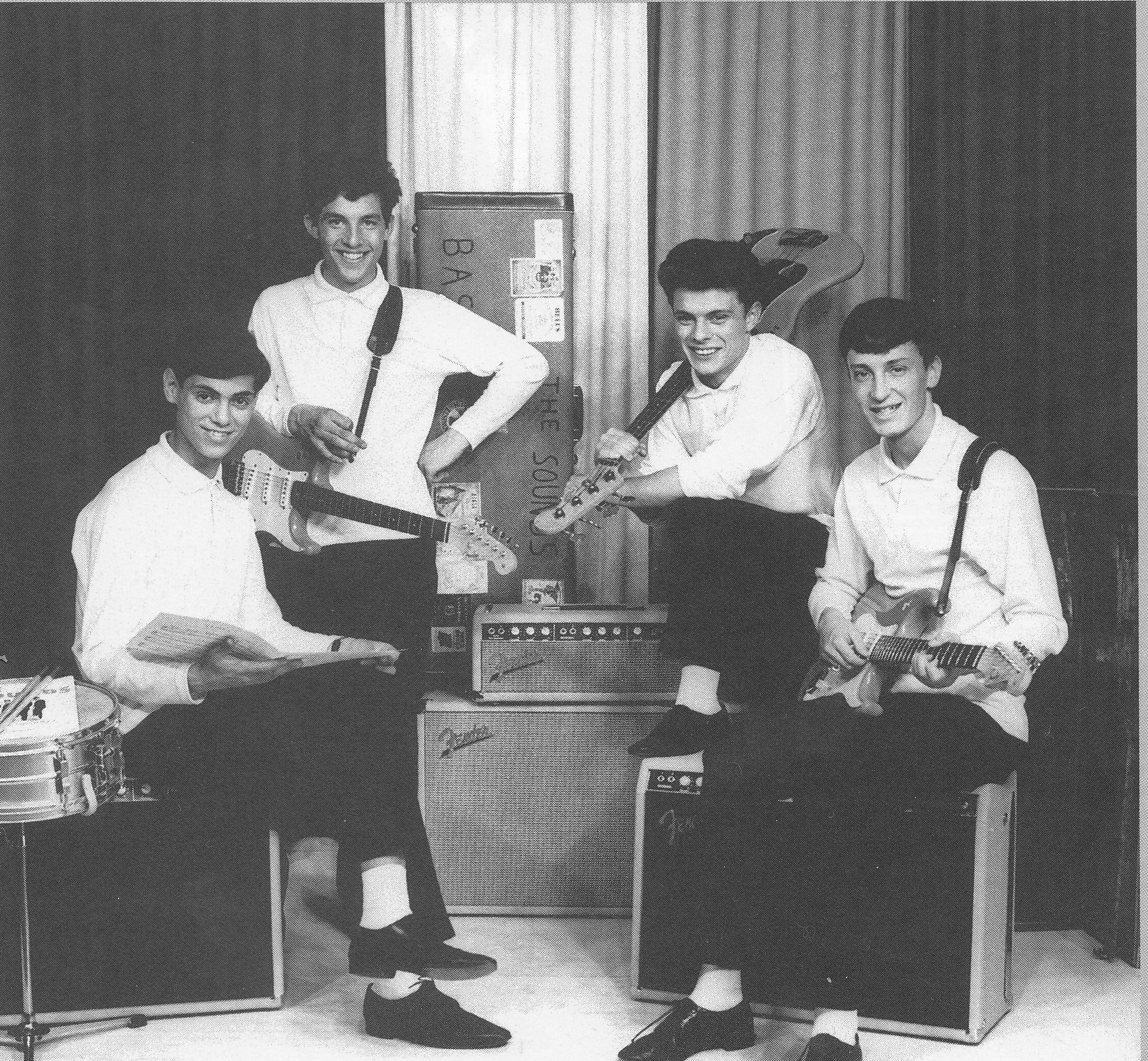 The Sounds, Finnish guitargroup.